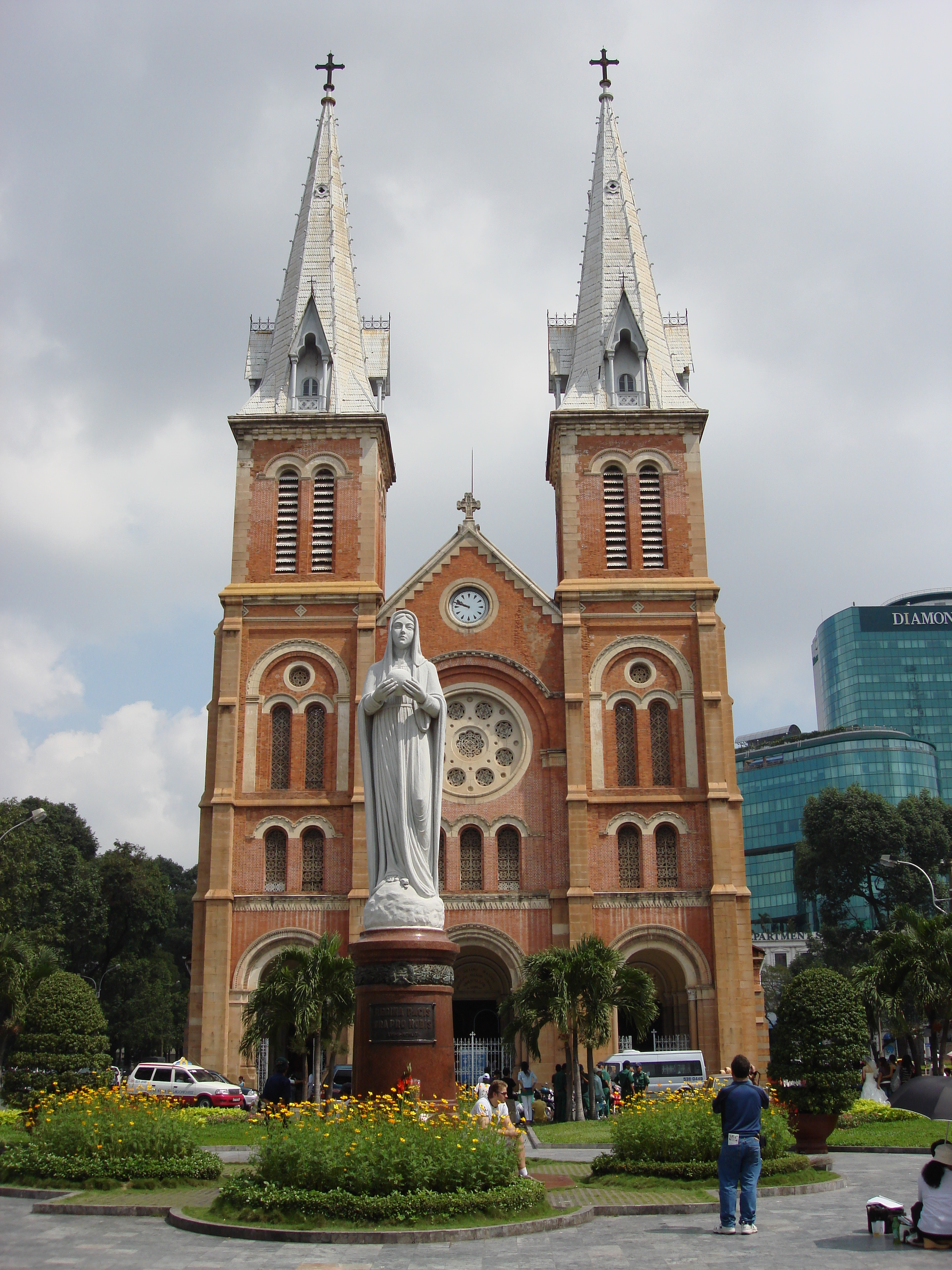 Ho Chi Minh City Hall or Hotel de Ville de Saigon was built in 1902-1908 in a French colonial style for the then city of Saigon. It was renamed after 1975 as Ho Chi Minh City People's Committee. Illuminated at night, the building is not opened to the public or for tourists. A statute of the namesake is found in park next to the building.